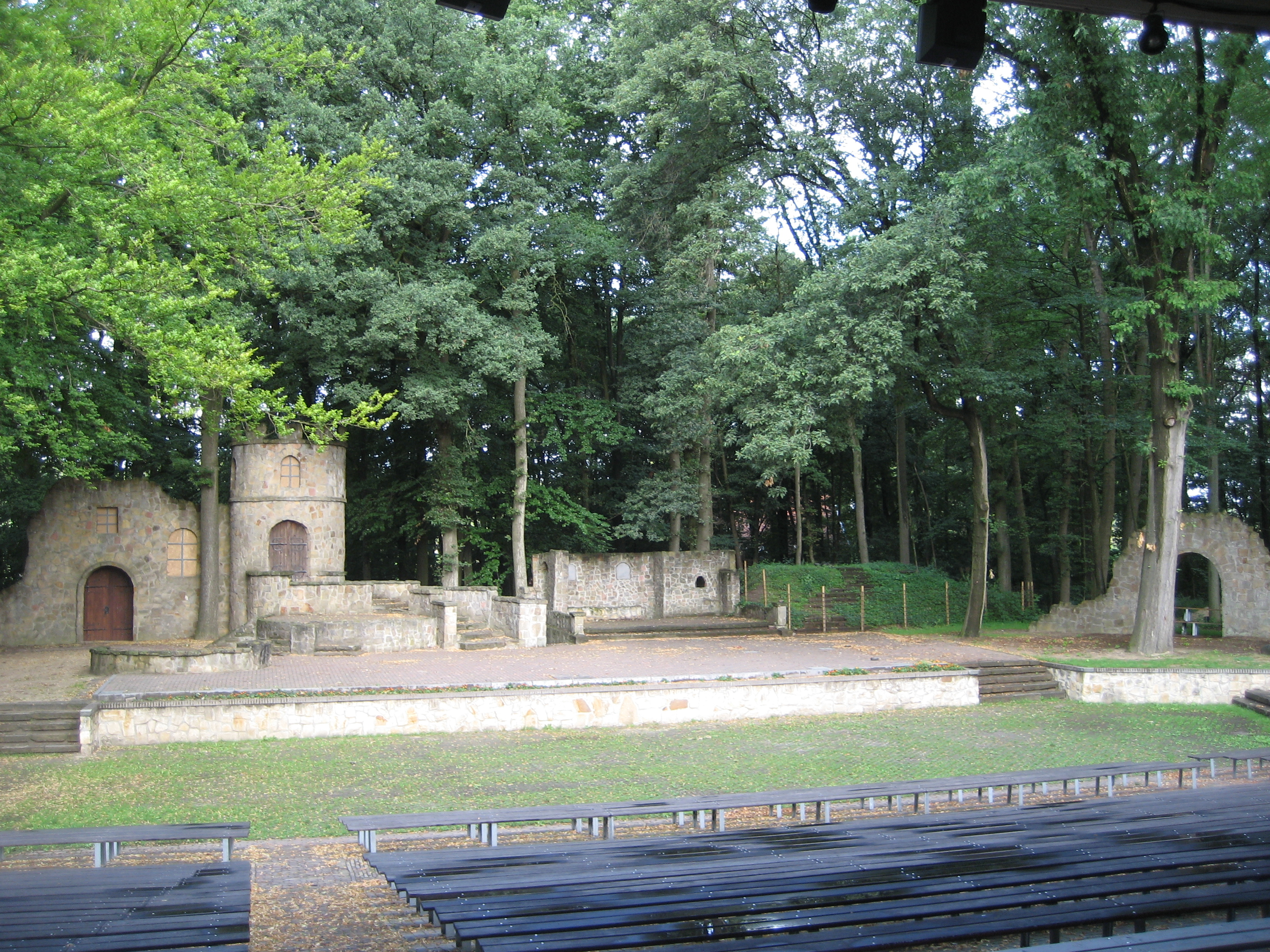 Open air theatre in Hertme (The Netherlands) (Openluchttheater)